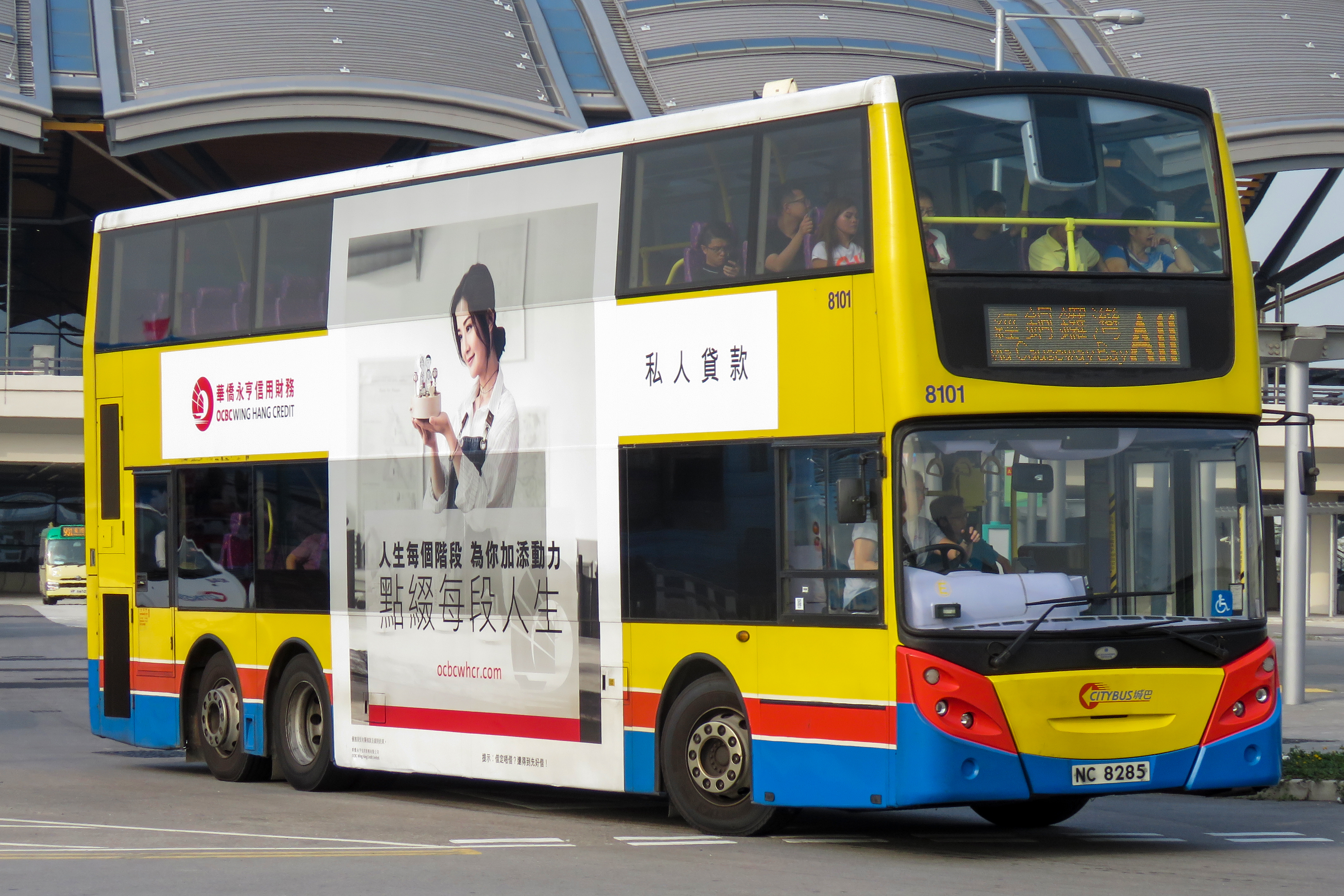 This non-Flyer A11 also departed from HZMB Hong Kong Port without loading passengers at the airport. Maybe this special service can be called B11? By the way, some of Citybus' Enviro500s (classic) do have luggage racks.